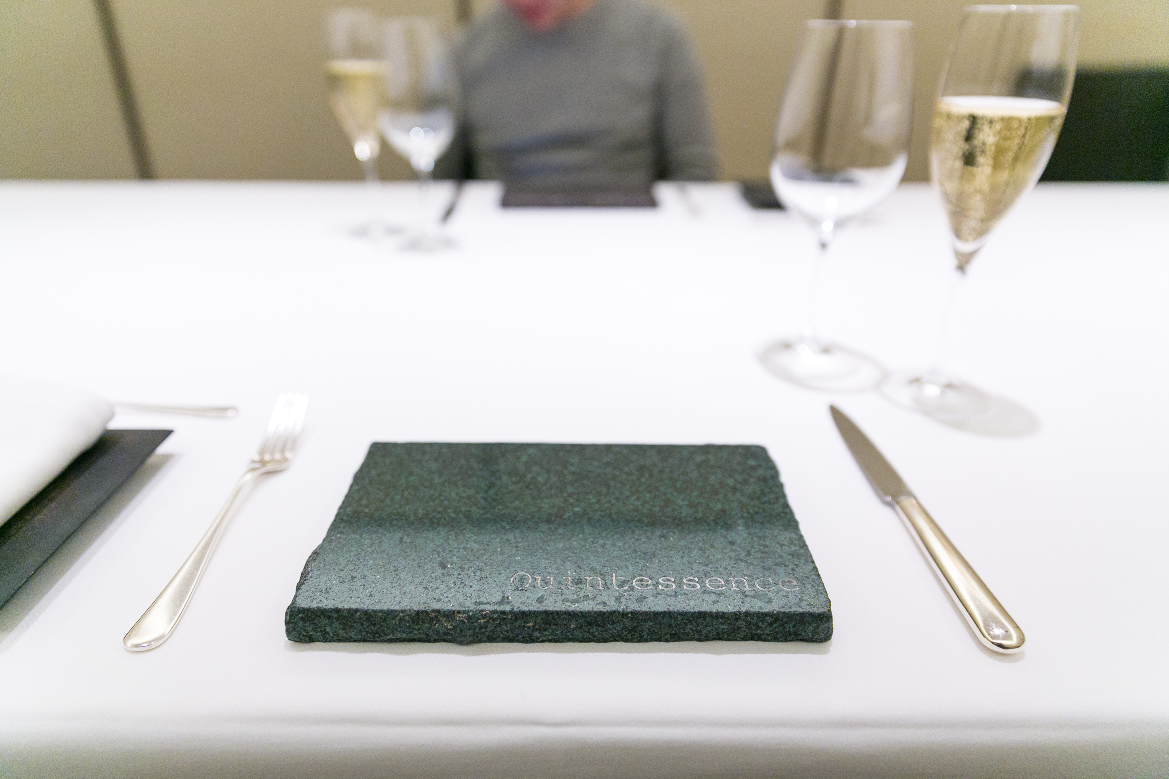 Quintessence, Tokyo, JPN Date Visited: December 23, 2014 City Foodsters Facebook | Twitter | Instagram